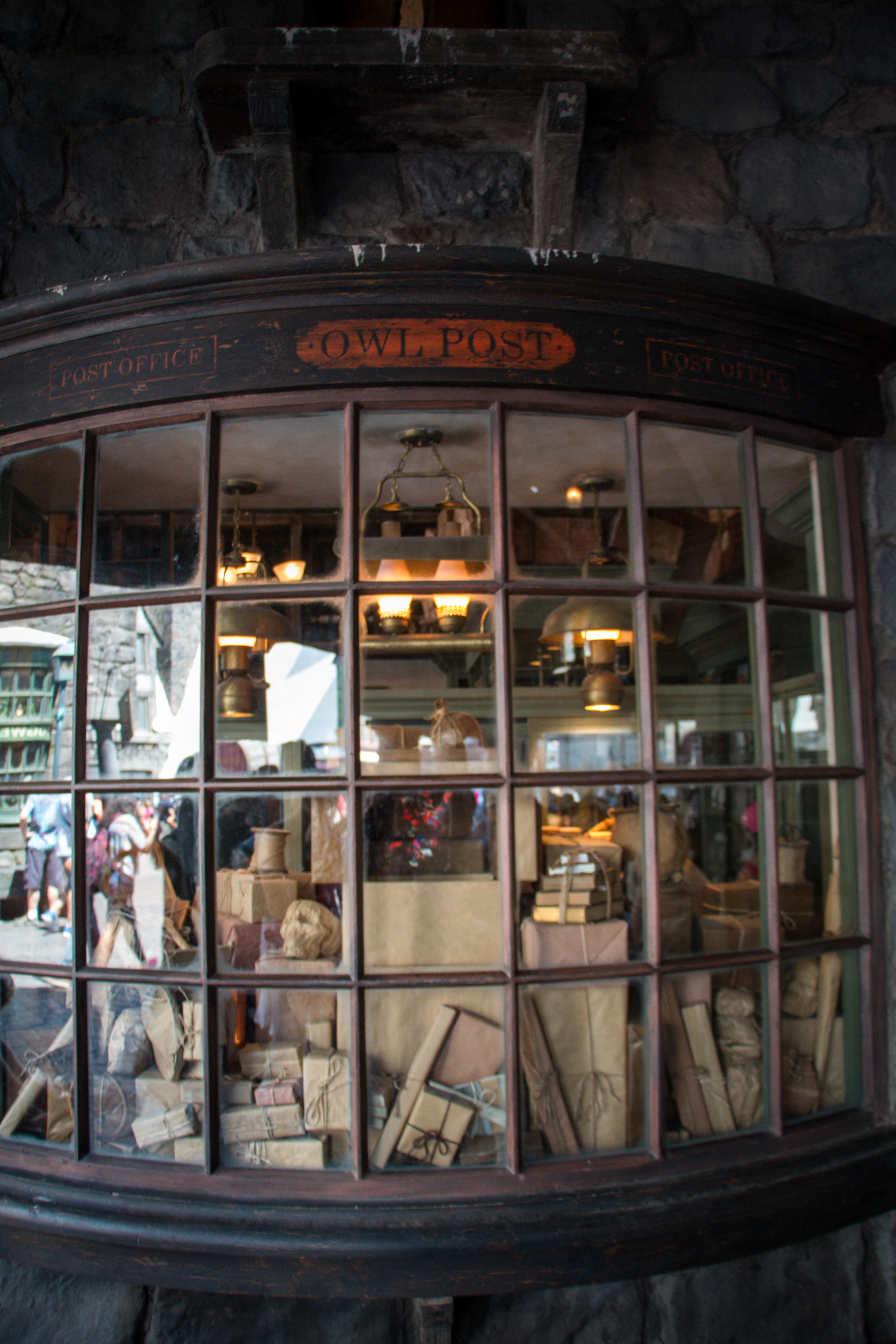 A window display in Hogsmeade at the Wizarding World of Harry Potter at Universal Studios Hollywood.